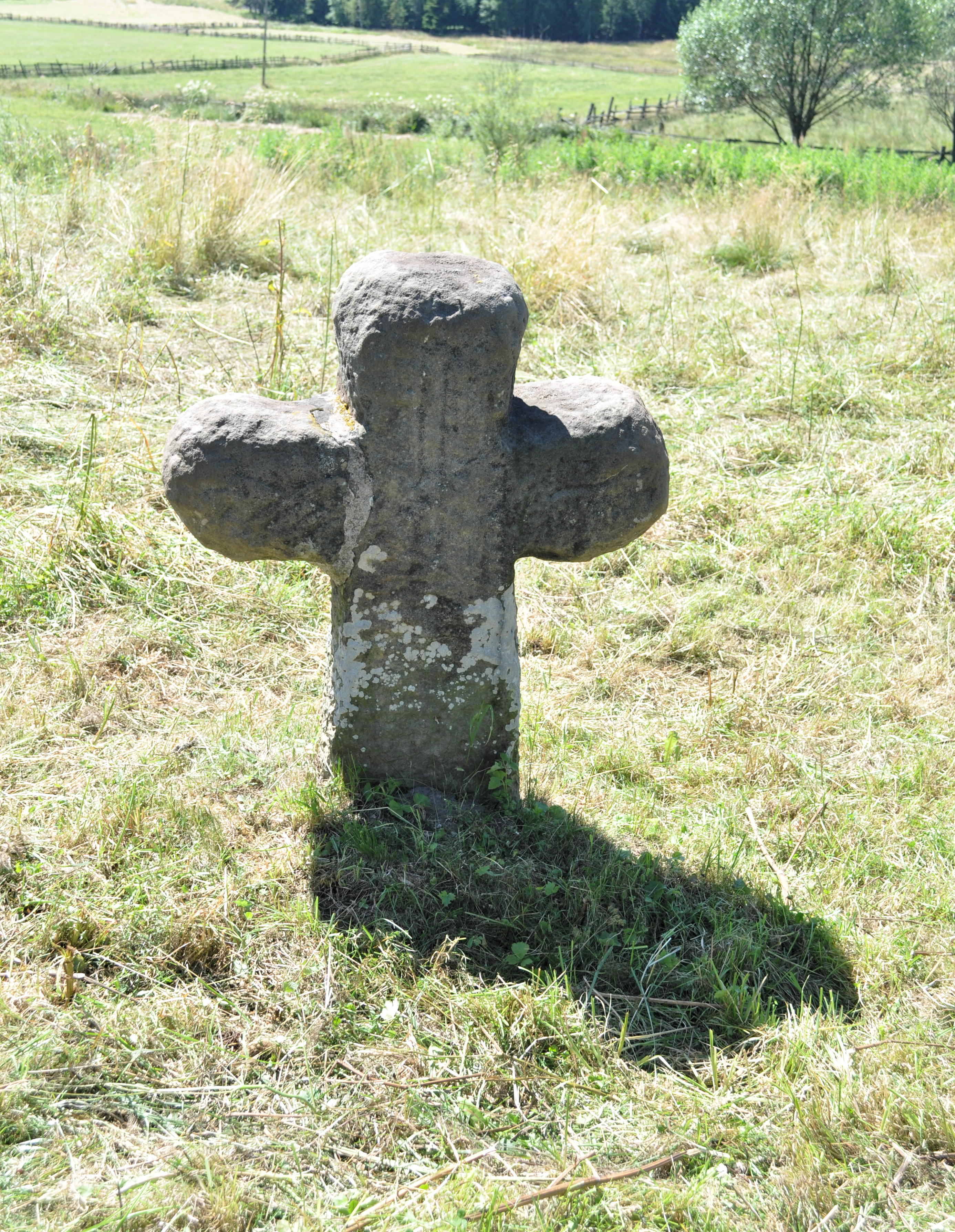 Shrine in Kochanów